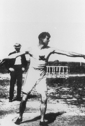 Martin Sheridan during 1904 Summer Olympics